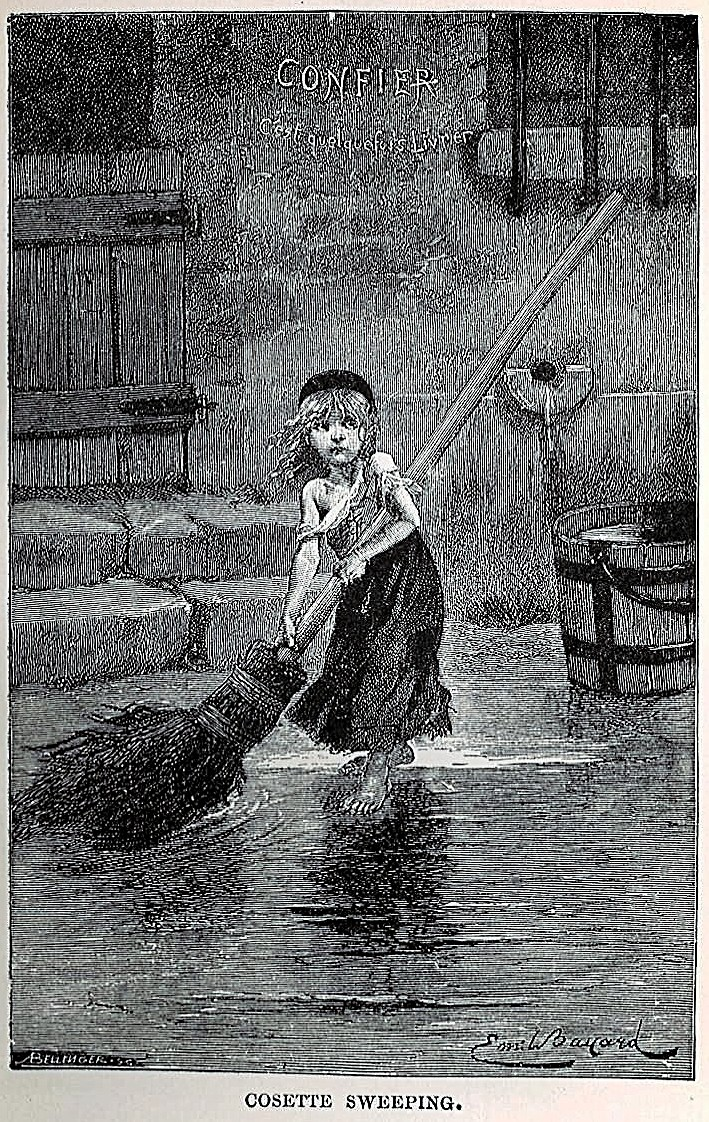 “Cosette Sweeping,” illustration from Victor Hugo, Les Misérable (1862). Translated by Isabel Hapgood. New York, 1887. French illustrator Émile Bayard drew the sketch of Cosette for the first edition, and this engraving was prepared for an 1886 edition. The image has become emblematic of the entire story, being used in promotional art for various versions of the musical.